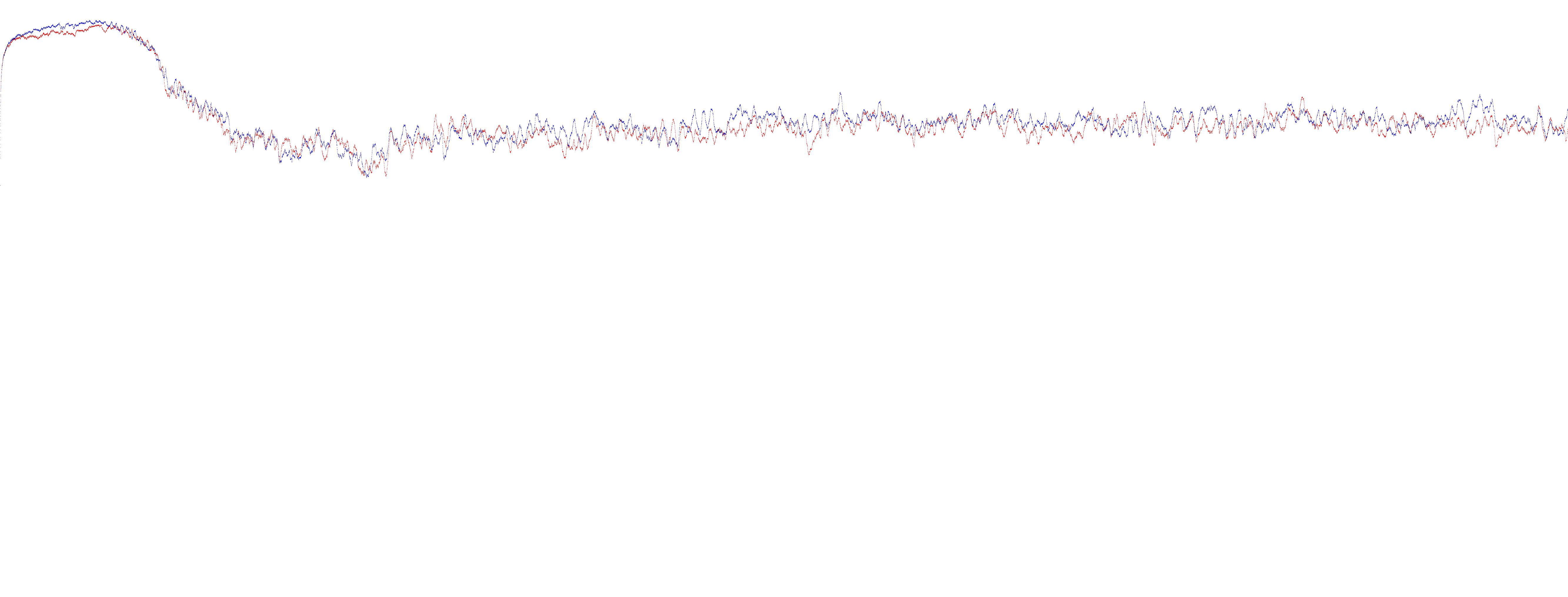 A graph of mobility for the Biham-Middleton-Levine traffic model corresponding to the lattice in File:Bml x 512 y 512 p 31 iterated 0.png and File:Bml x 512 y 512 p 31 iterated 32000.png. The vertical axis represents the number of cars that can move, and the horizontal axis represents the turn. The vertical axis is normalized so tha the top edge is one and the bottom edge is zero; likewise the horizontal axis has a range of 0 to 32000. This was created with C++. Source code is located at user:Purpy Pupple/BML.